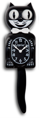 Modern black Kit-Cat clock.